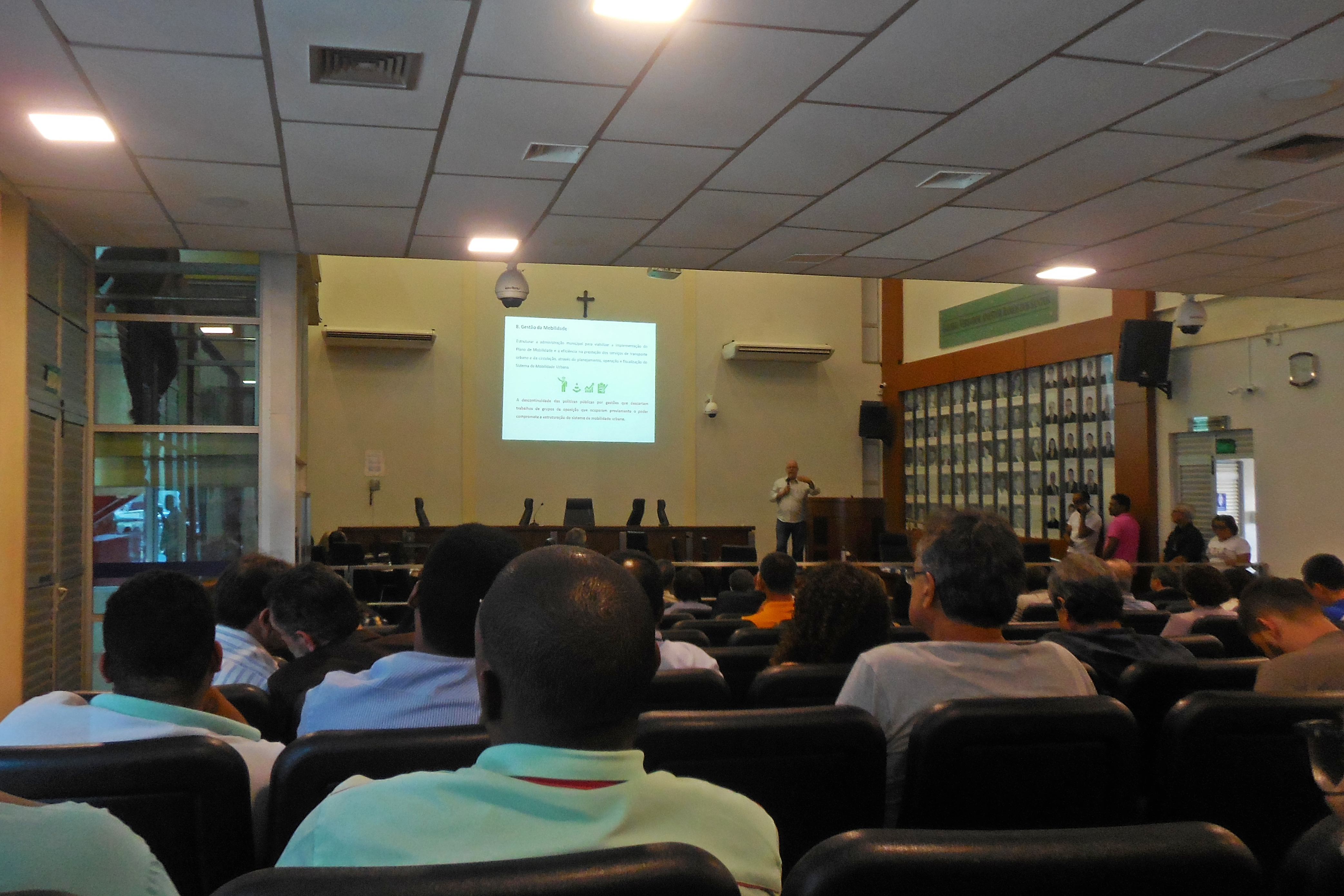 Lecture on urban mobility with the director of the Ruaviva institute, Ricardo Mendanha, in the city council of Ipatinga, Minas Gerais, Brazil.